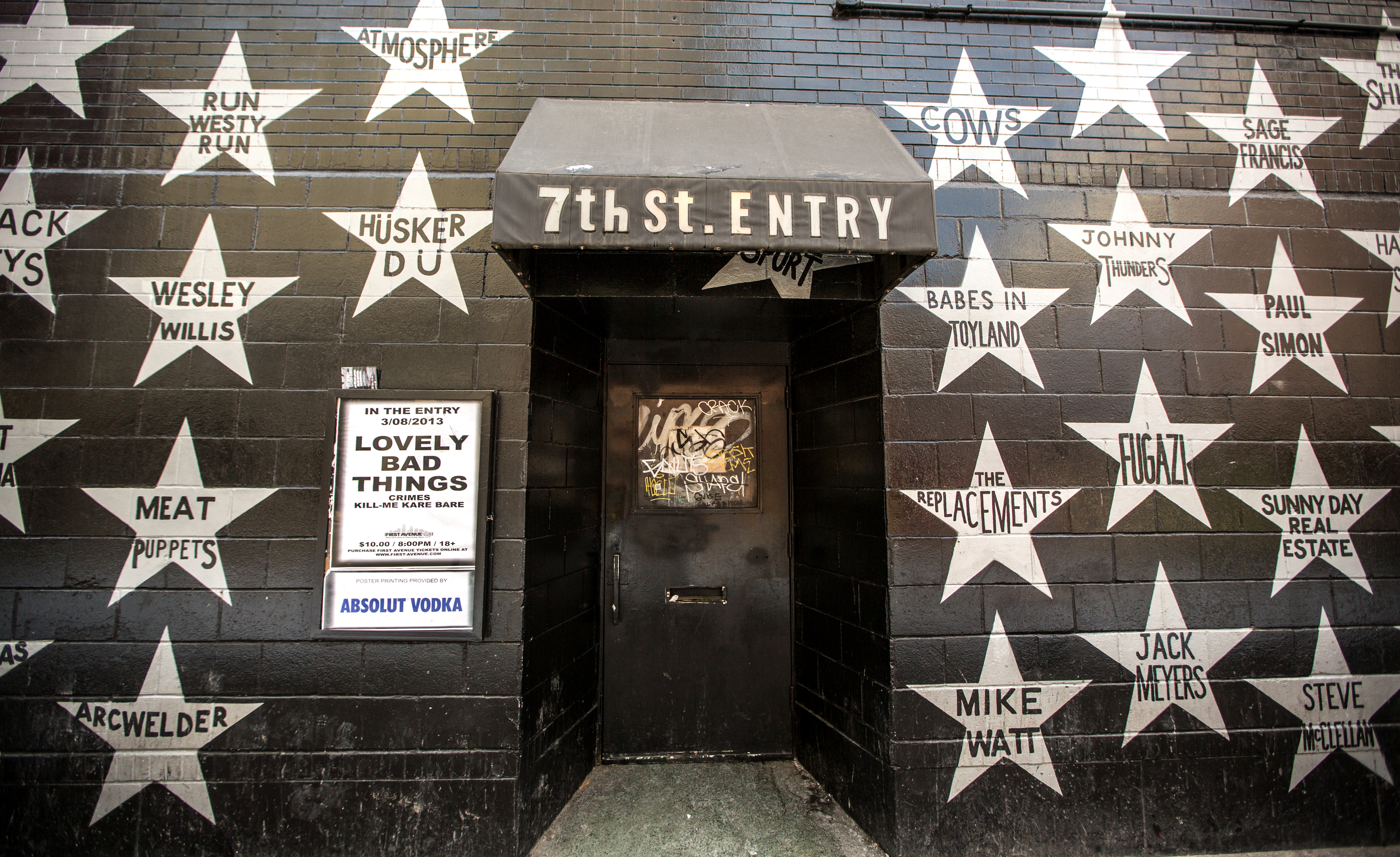 Convert venue 7th St. Entry and First Avenue in Minneapolis, Minnesota.